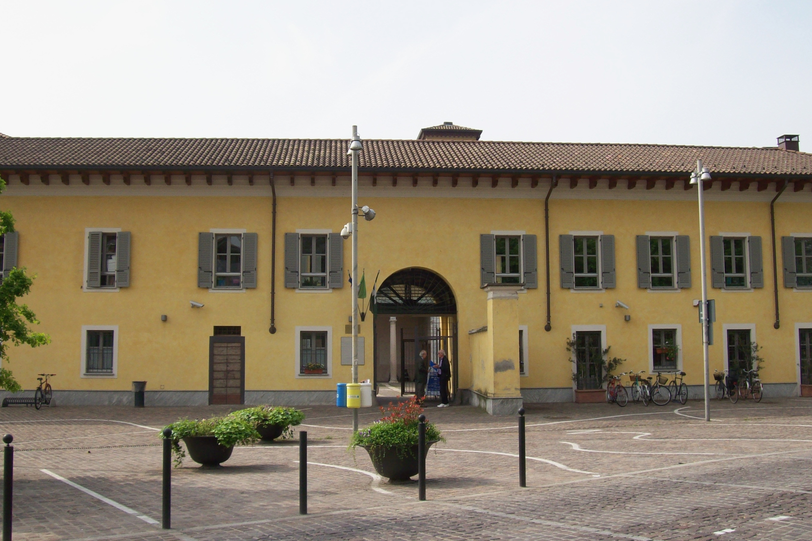 Civic library of Novate Milanese, province of Milan